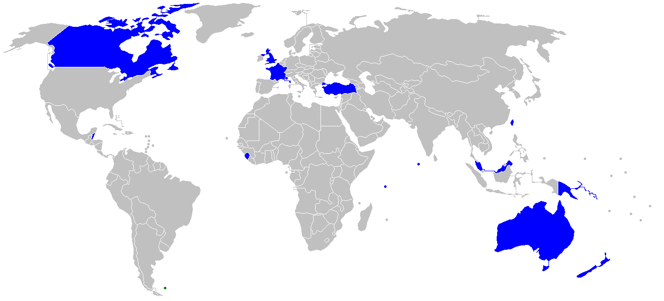 Countries that support the United Kingdom's claim to sovereignty over the Falkland Islands, South Georgia, and South Sandwich islands.